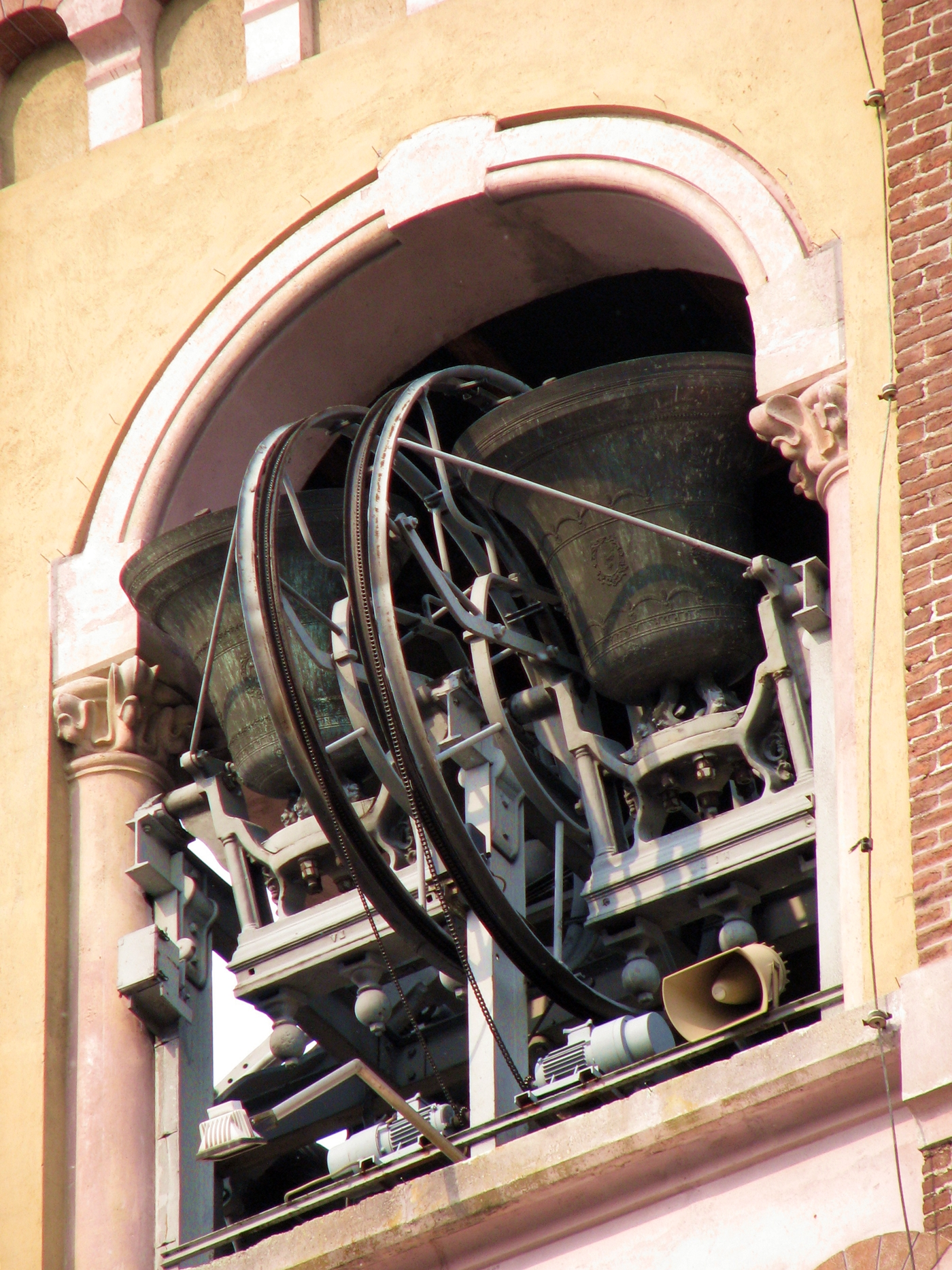 bells system Ambrosian position "a bicchiere"